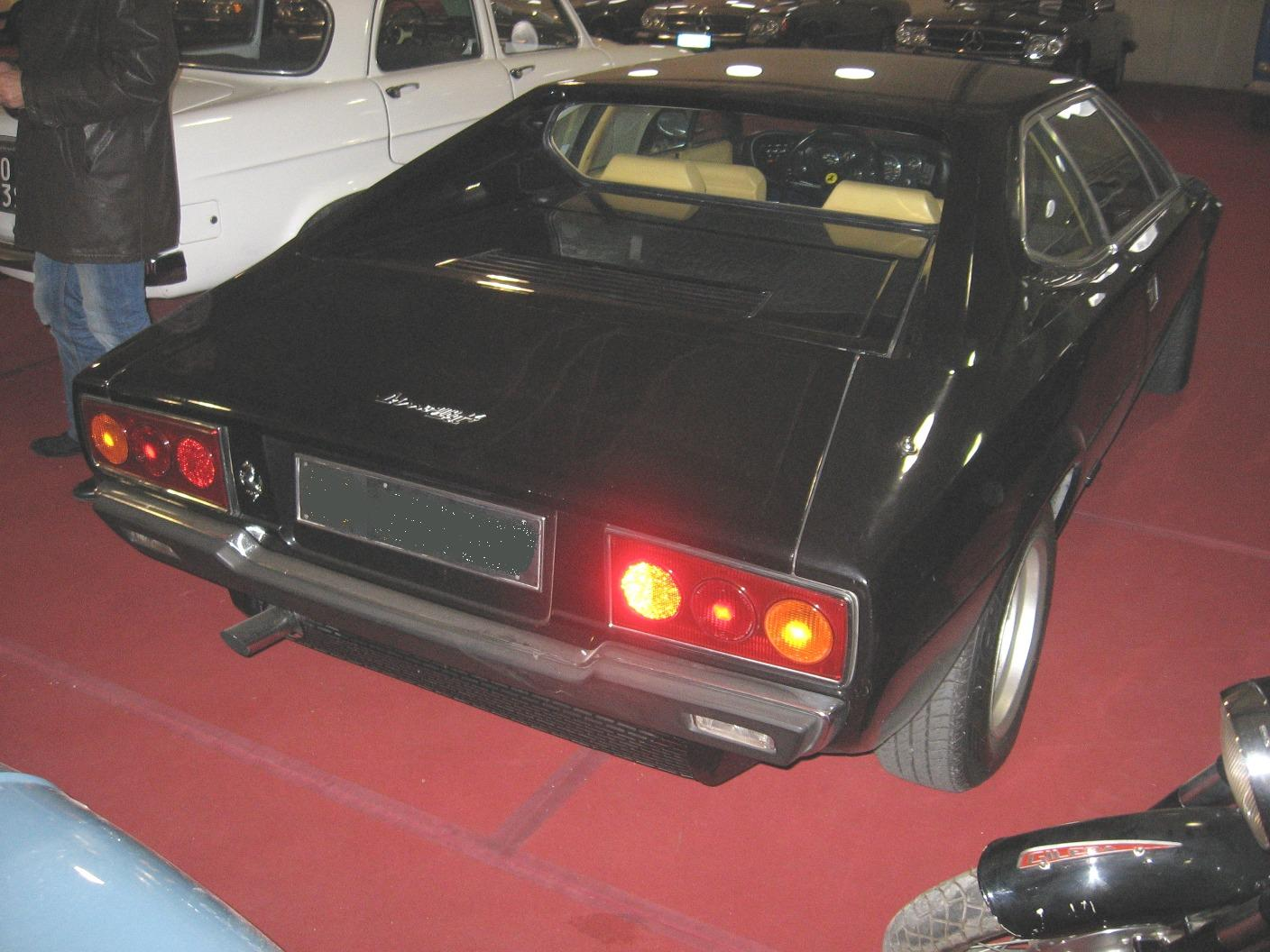 Subject:Ferrari Dino 308 GT4 - 1976 Author:Luc106 Date:November 24th, 2007 Event:Markè Retrò 2007 Place/Country:Cesena (FC), Italy I release all rights in the public domain.